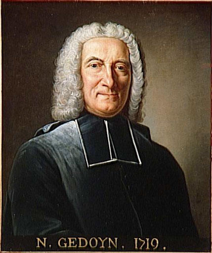 Portrait of French writer Nicolas Gédoyn (1677-1744)